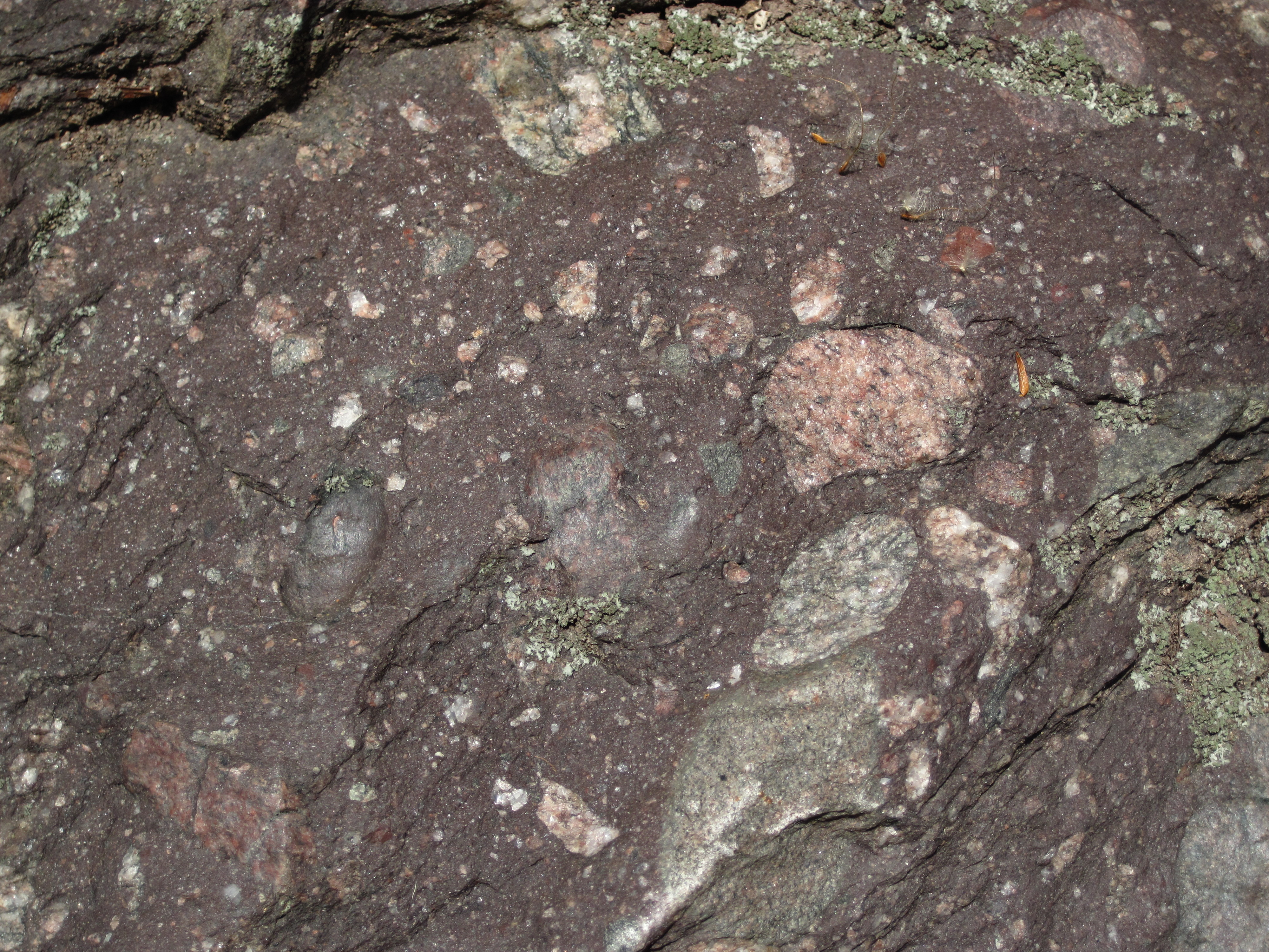 Diamictite in the Precambrian of Virginia, USA. The Snowball Earth Glaciations during the Neoproterozoic were the most significant ice ages that Earth ever experienced - two or three of them occurred in succession. The most extreme models describing Snowball Earth have glacial ice completely covering all continents and all oceans, even at the equator. Some models, called “Slushball Earth”, have Earth’s equatorial oceanic areas not completely frozen over. Each Snowball Earth Glaciation was followed by a super-greenhouse climate. The resulting sedimentary record of these “freeze-fry” events typically consists of glacial tillites and overlying cap carbonates. These units are preserved at many localities on Earth. The Virginia outcrop shown above consists of a Snowball Earth glacial conglomerate (polylithic diamictite), with non-bedded matrix-supported clasts. This was originally a glacial till. With burial and lithification, till becomes tillite. The rocks in this area have been subjected to very low grade metamorphism, so the tillite is now a metatillite. The clasts vary in lithology, origin, and age. The most conspicuous clasts are speckled granites (dominated by quartz and potassium feldspar), derived from the 1.0 to 1.3 billion year old Cranberry Gneiss. Stratigraphy: Konnarock Formation, Neoproterozoic, ~750 Ma Locality: roadcut on the northern side of Rt. 603, immediately west of the Rt. 603- Rt. 755 intersection, just west of the town of Konnarock, southeastern Washington County, southwestern Virginia, USA (36º 39' 49.34" North latitude, 81º 38' 45.54" West longitude)